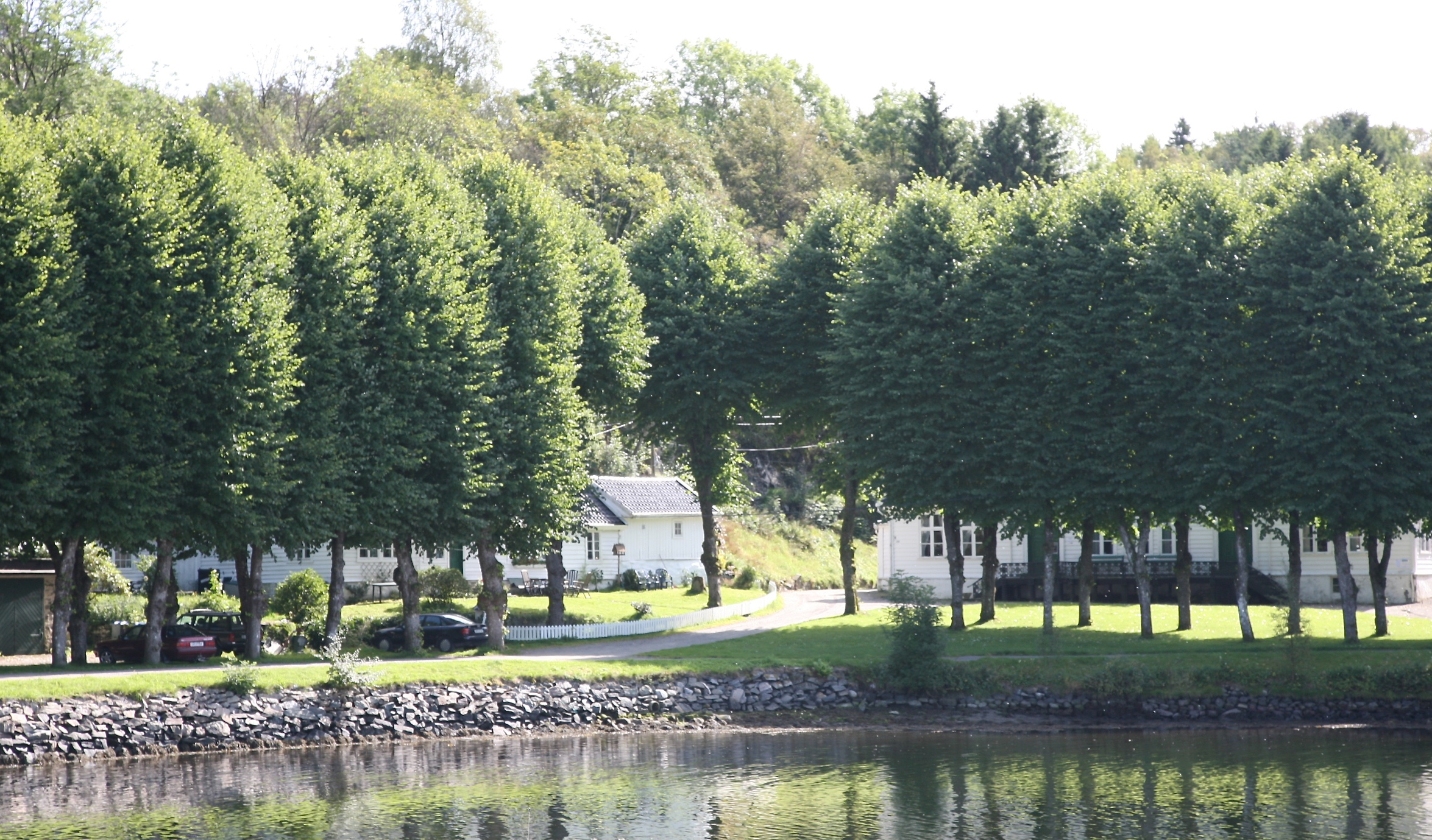 Alvøen Manor, Bergen, Norway.